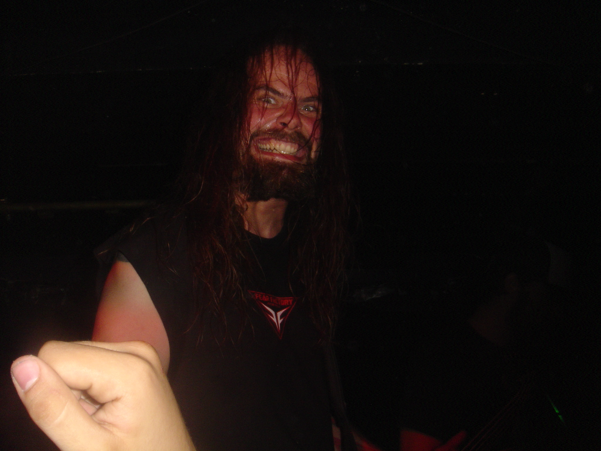 Bass guitar player Tomas "Obeast" Koefod of the heavy metal band Mnemic.Obeast Gurning for Denmark